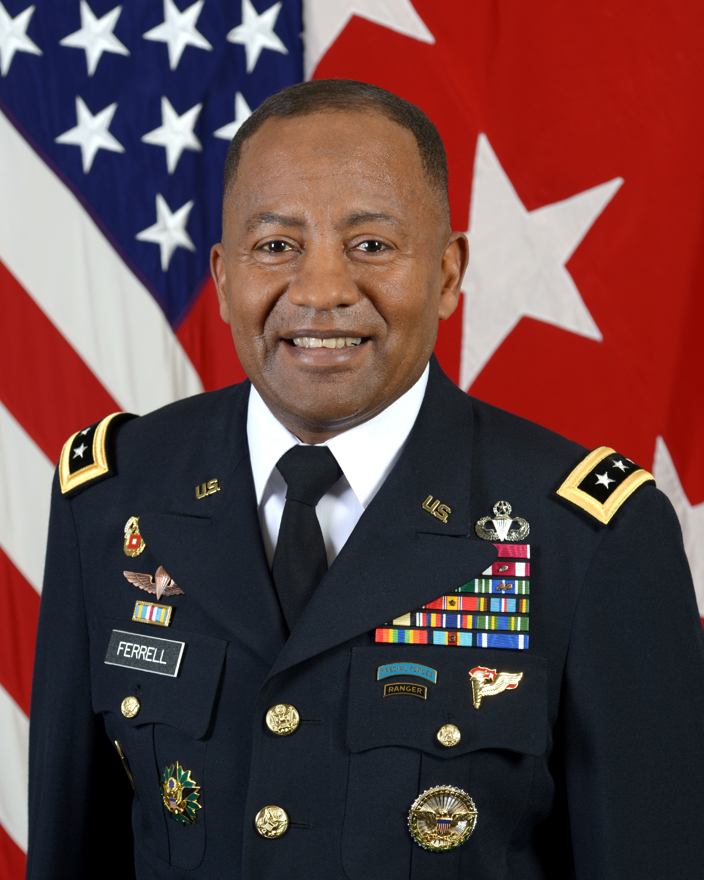 U.S. Army Lt. Gen. Robert Ferrell, the chief information officer of the U.S. Army, poses for a command portrait at the Army Portrait Studio of the Pentagon in Washington Jan. 7, 2014.